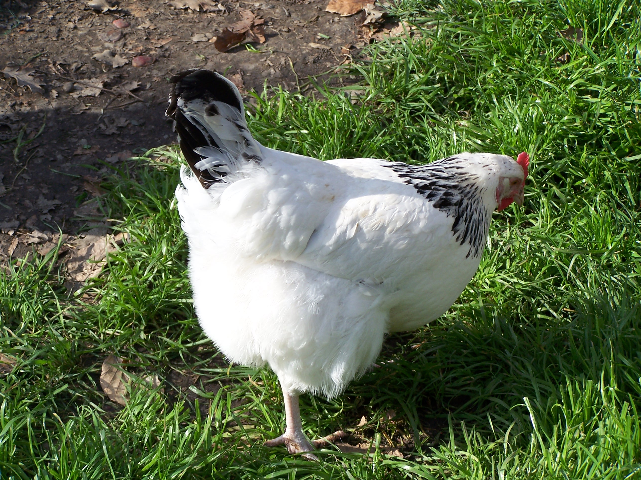 Very Rare Light Sussex. Not Many Light Sussex in the USA